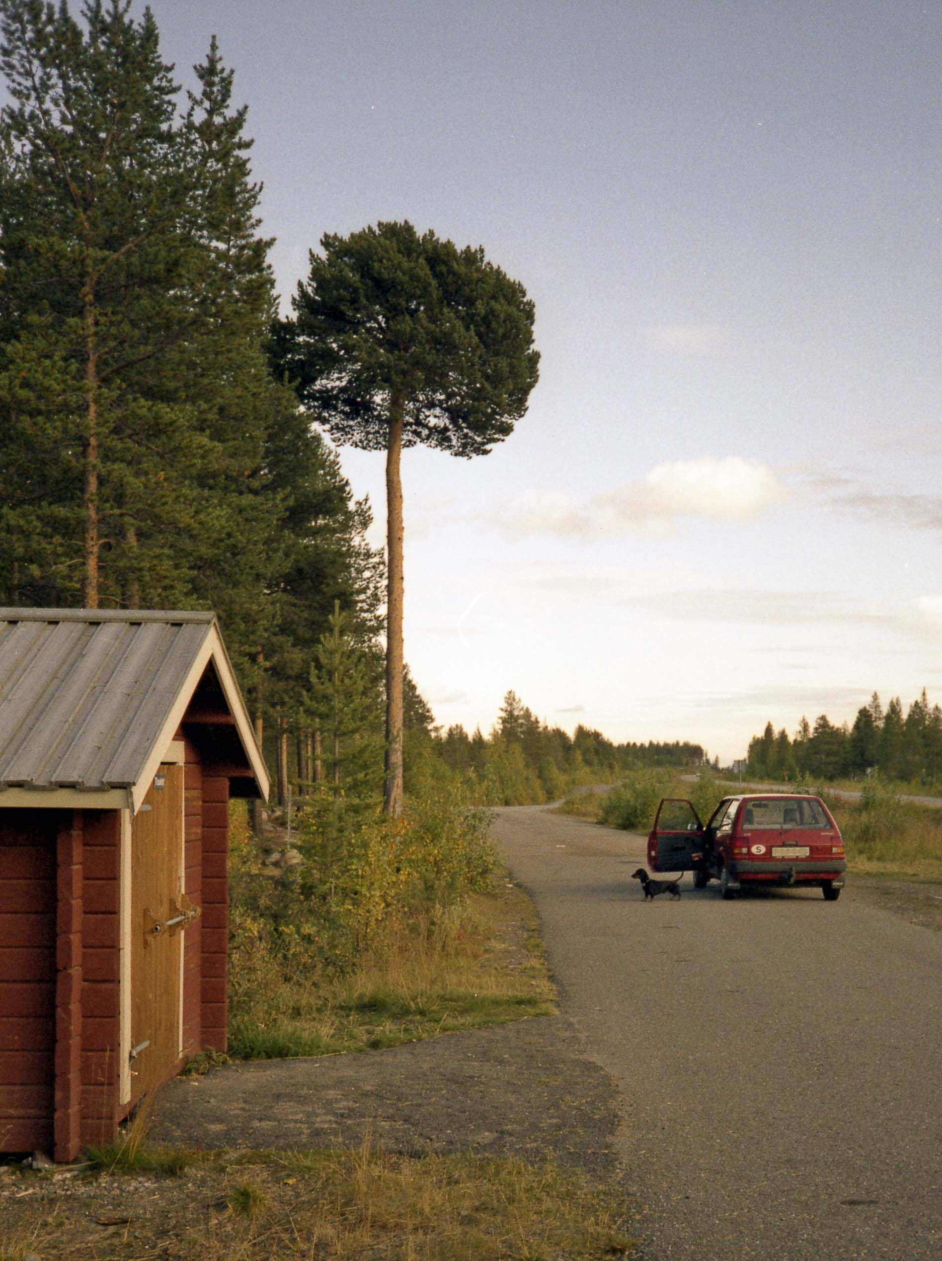 The booze pine, outside Vittangi village in northen Swedish Lappland, where they in former days halted to give the horses a rest and take a booze